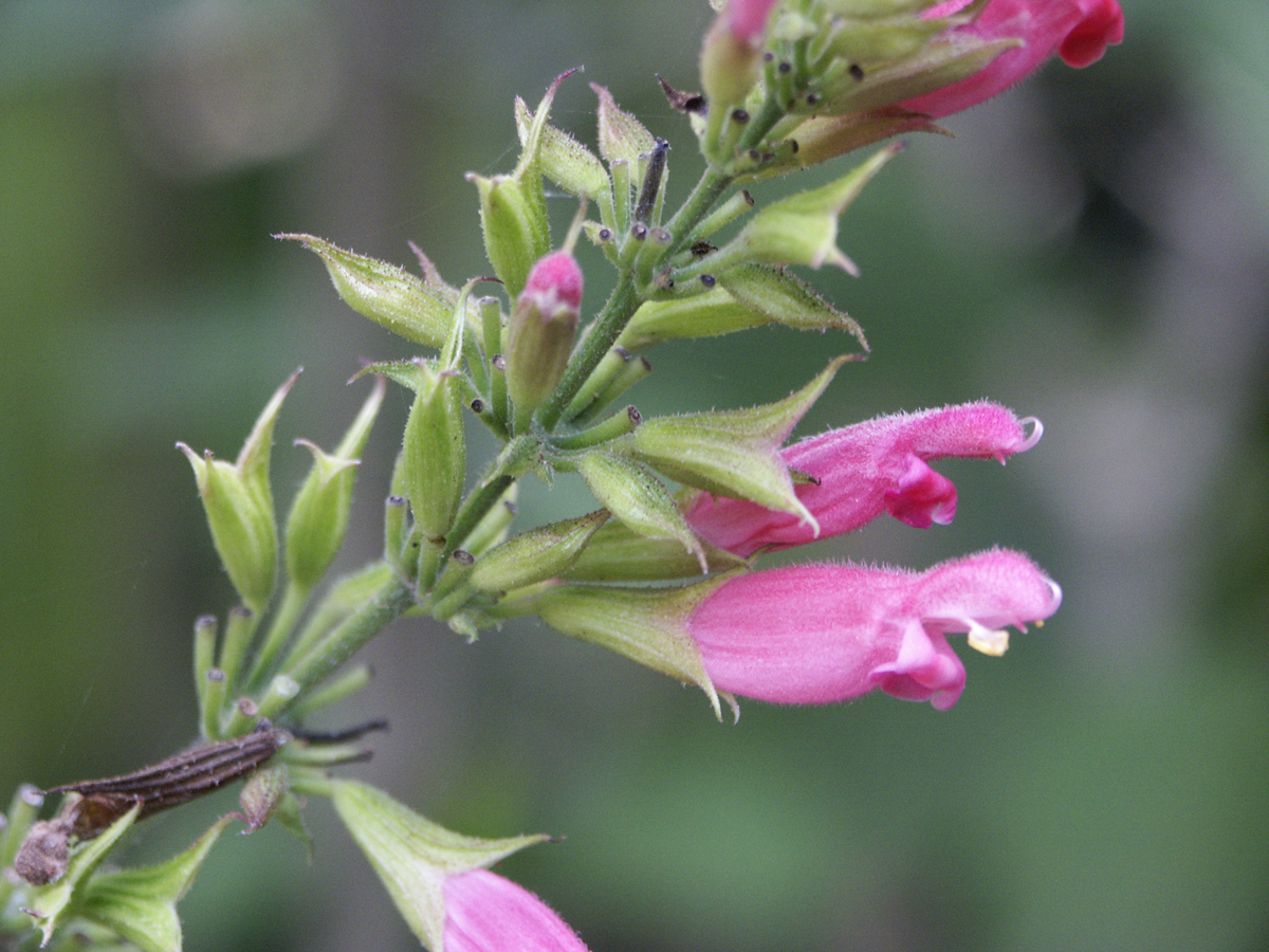 San Francisco Bot Garden, Strybing Arboretum, CA